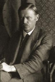 Cropped picture of Steponas Kairys, one of the twenty signatories of the Act of Independence of Lithuania.